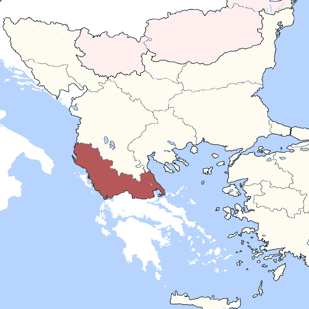 Yanina Eyalet in 1850s. Tributary states of the Ottoman Empire are shown in pink. According to the information of this map: [1]